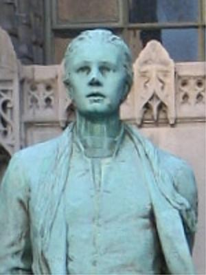 Bust portion of Nathan Hale statue outside the Chicago Tribune Tower in Chicago, Illinois (file: fast/resizing JPEG format) Variations: Figure-Image:Nathan-Hale-statue-Chicago-Tribune-Tower-figure.jpg, Site- Image:Nathan-Hale-statue-Chicago-Tribune-Tower-figure.jpg